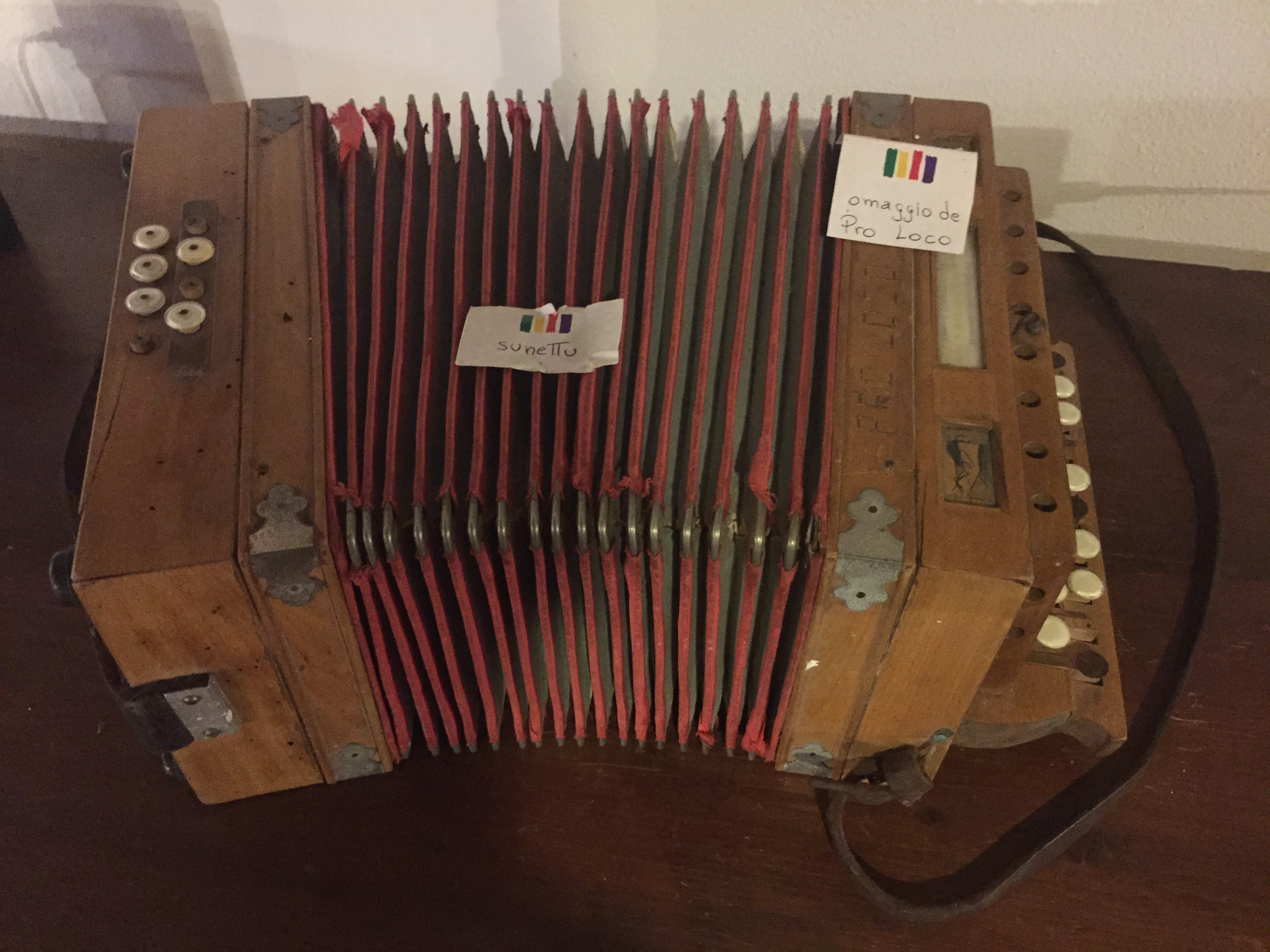 This photograph was taken with an iPhone 6